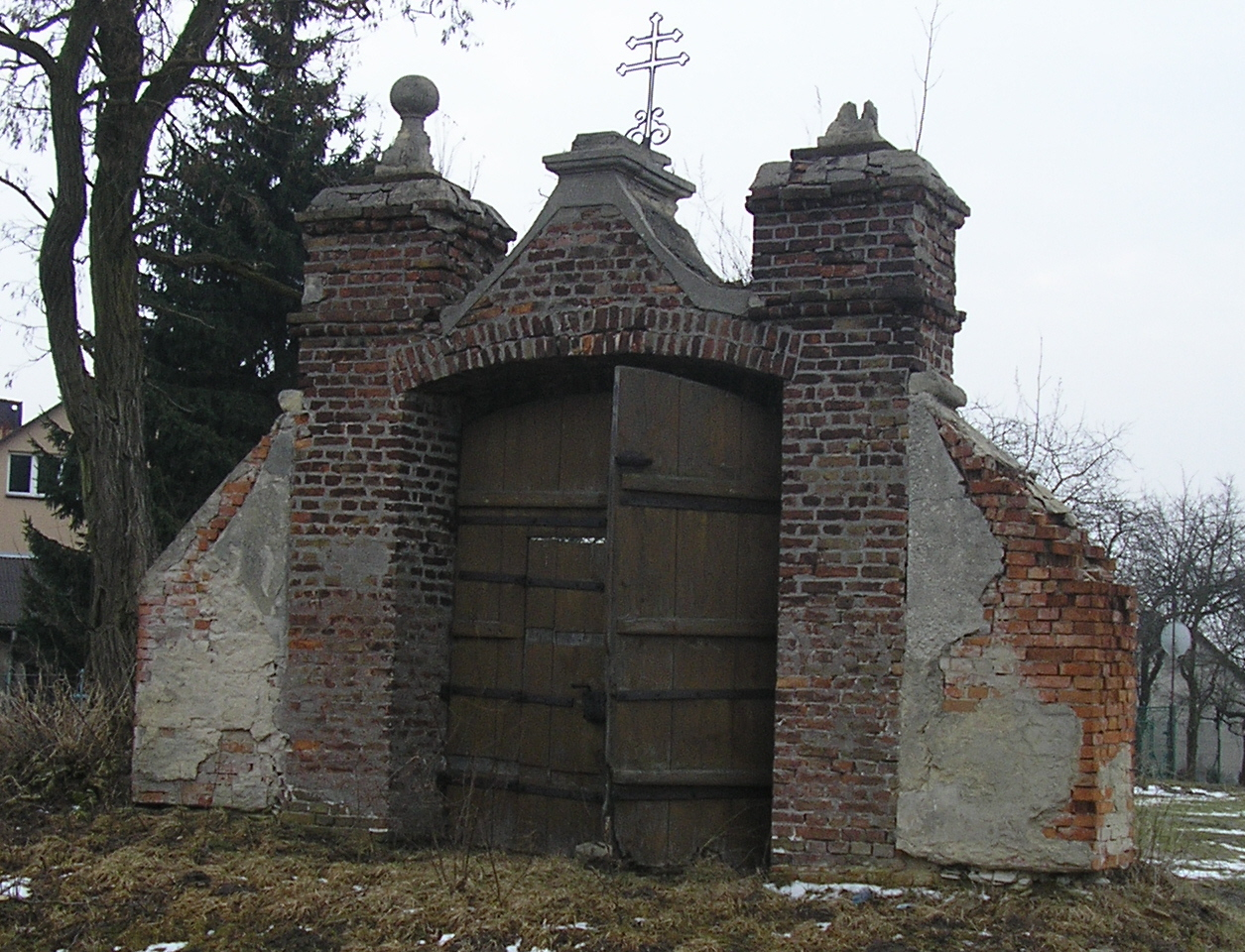 Church of the Holy Cross in Siedliska. Gate